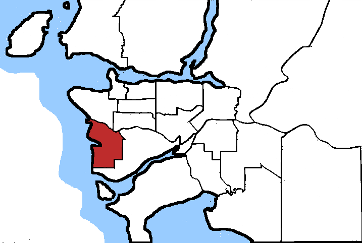 Map of the Richmond electoral district. Based on Earl Andrew's maps, created by SimonP.